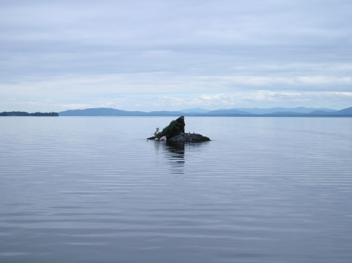 Rock Dunder in the Vermont waters of Lake Champlain. Abenaki legend says their god Oodzee-hozo turned himself into this rock. roughly 2.8 miles SW of the Burlington ferry dock. Yes, that's a seagull on the left slope.